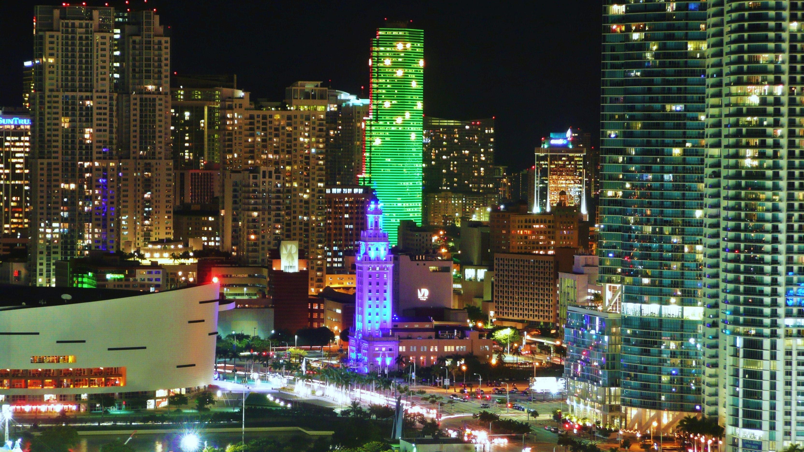 Digital photo taken by Marc Averette. Biscayne Boulevard in Downtown Miami, Florida, United States.